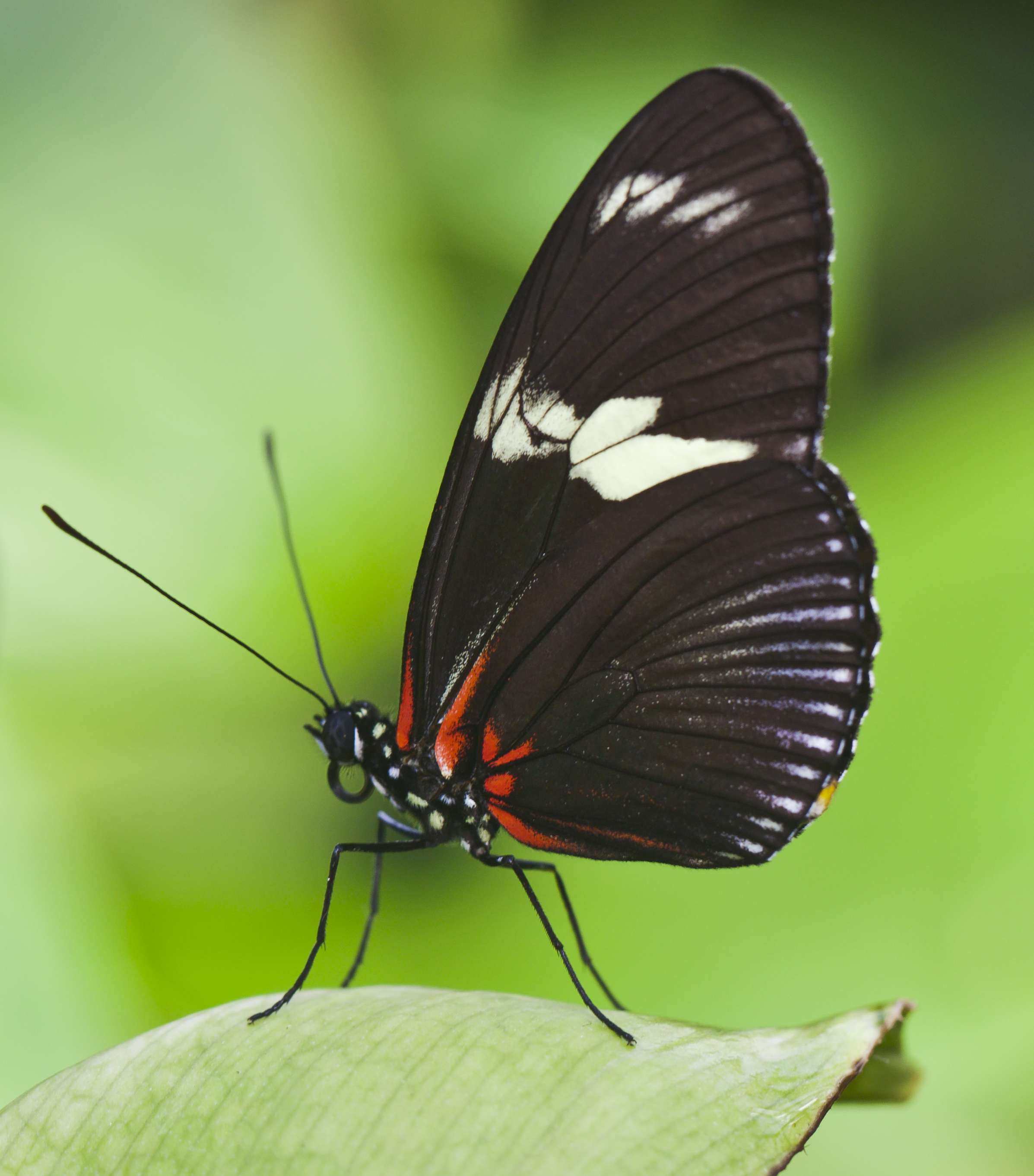 Laparus doris viridis, Munich Botanic Garden, Germany